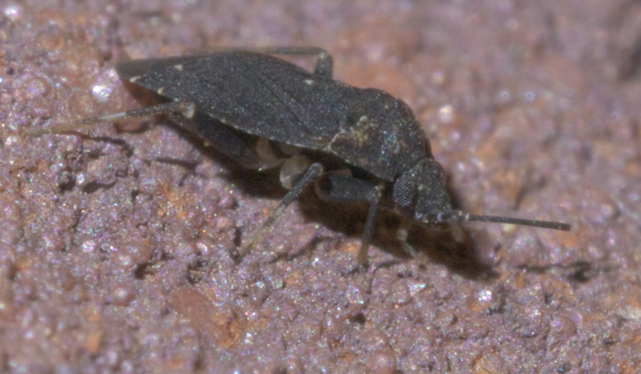 Peritropis saldaeformis, Family: Plant Bugs, ID Confidence: 98